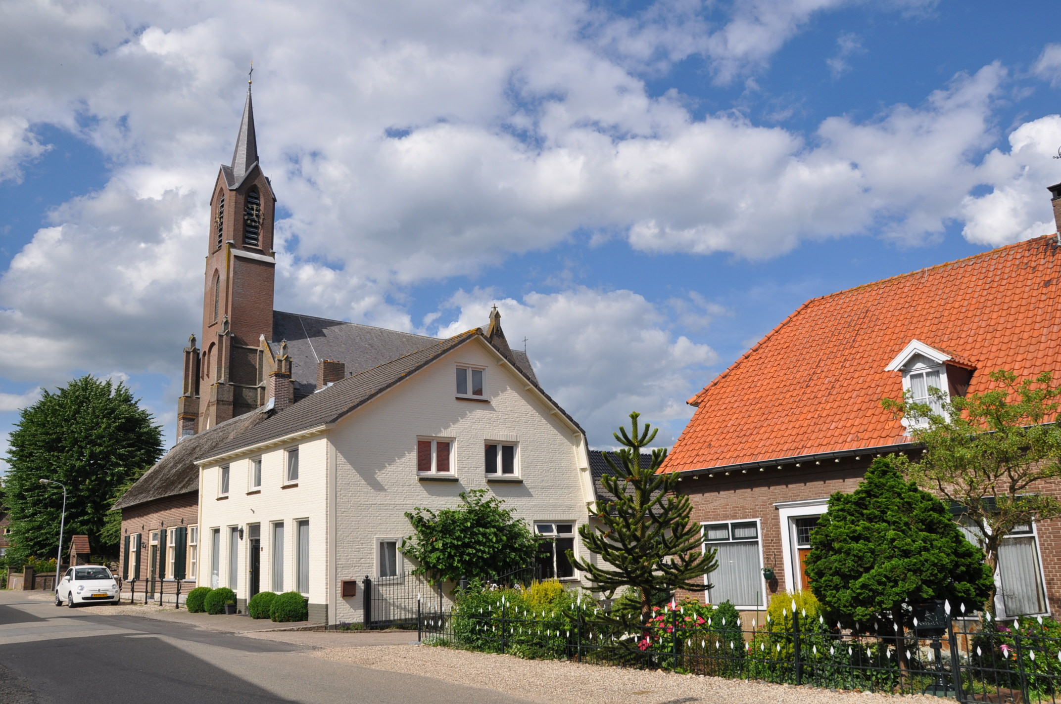 The Saint Odradastreet in Alem (municipality Maasdriel, Gelderland province, Netherlands), with the Saint Hubertus church (built in 1873, Roman Catholic).